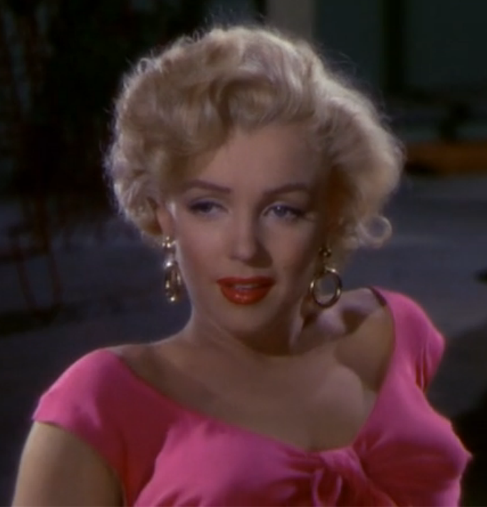 Marilyn Monroe in the 1953 film Niagara directed by Henry Hathaway.